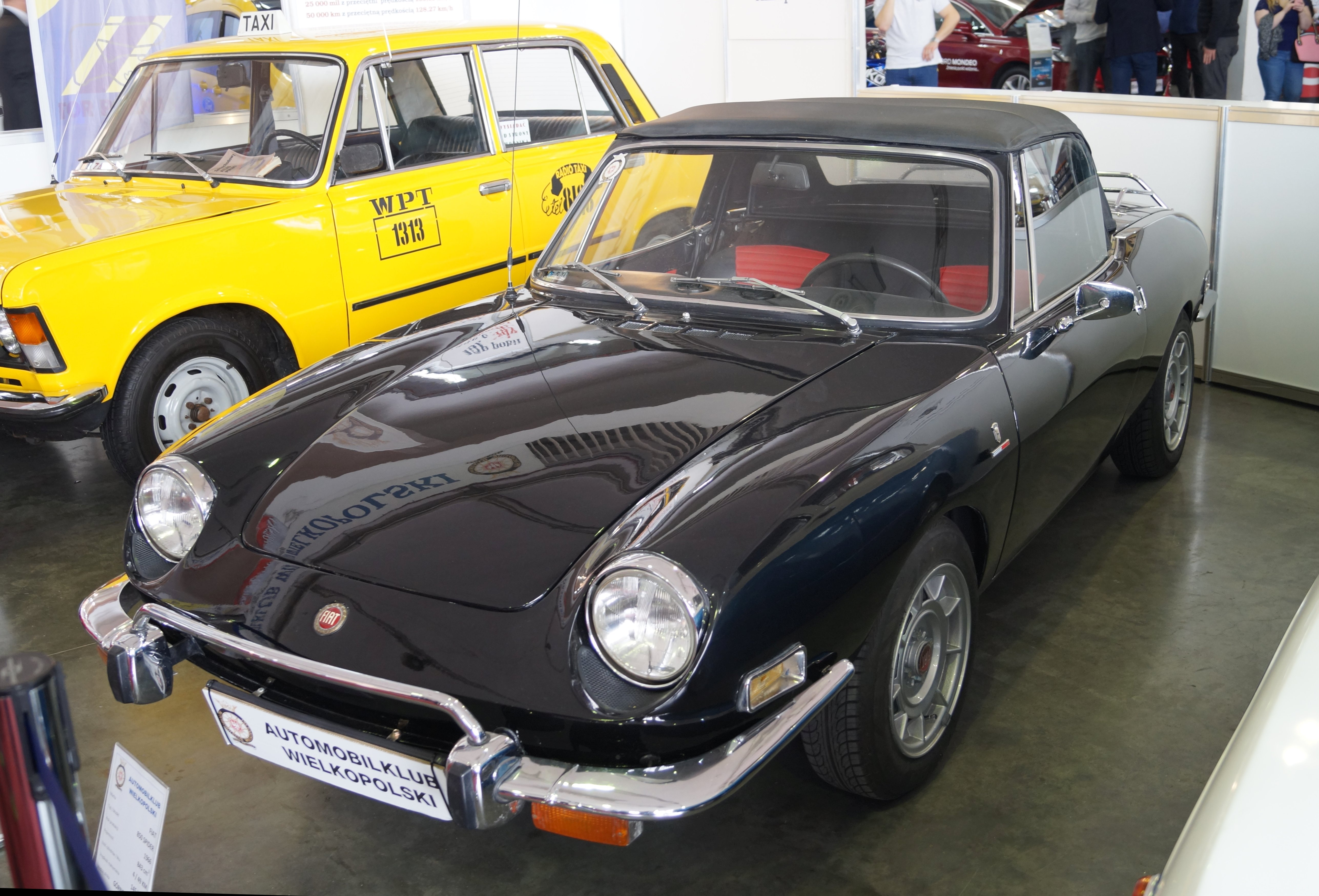 The making of this document was supported by Wikimedia Polska Association, within Wikigrant no. WG 2016-10. English | polski | +/− Fiat 850 Spider na Motor Show Poznań 2016